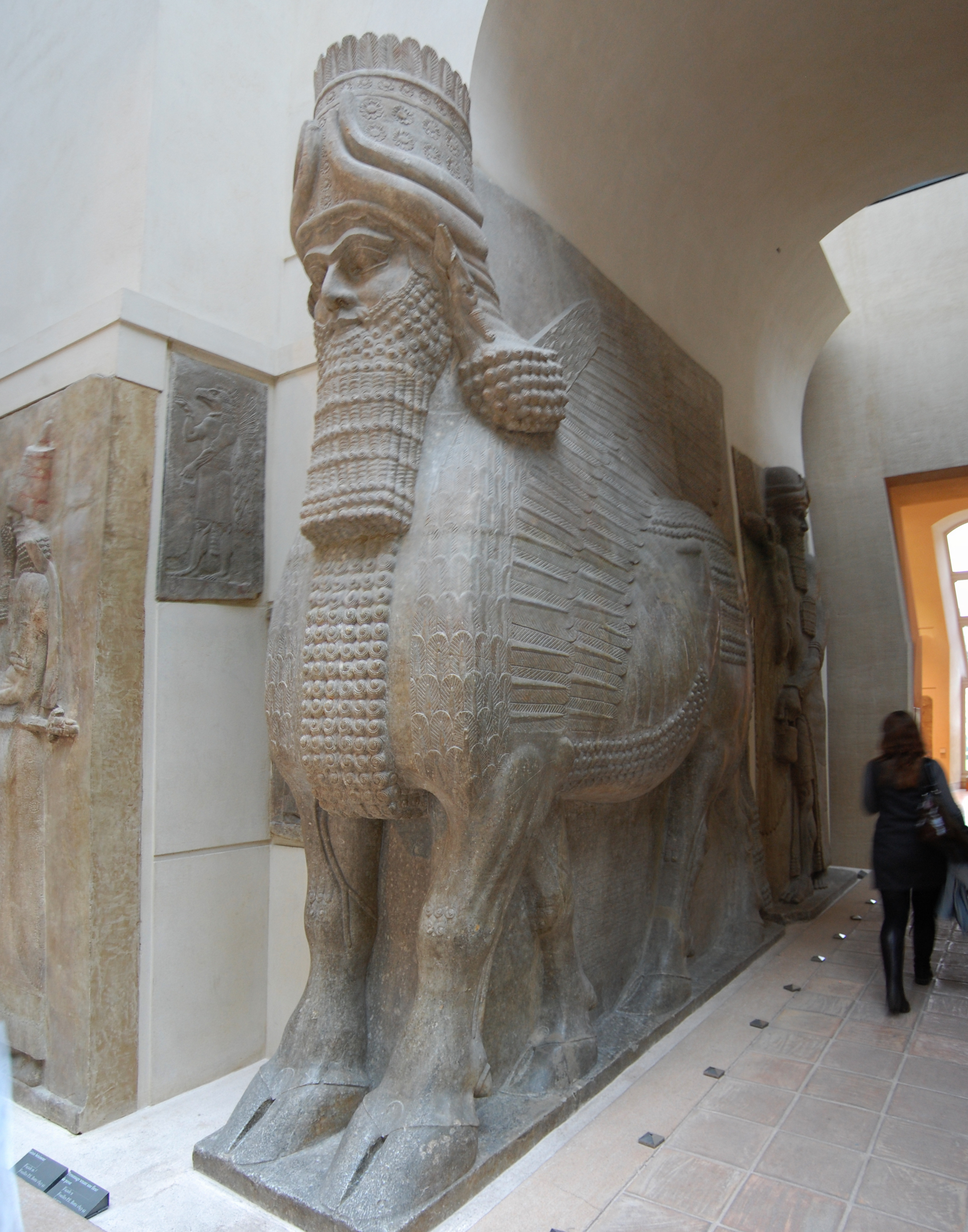 Human-headed winged bull Shedu, in the Louvre. Originally from Assyria, limestone, 8th century BCE.